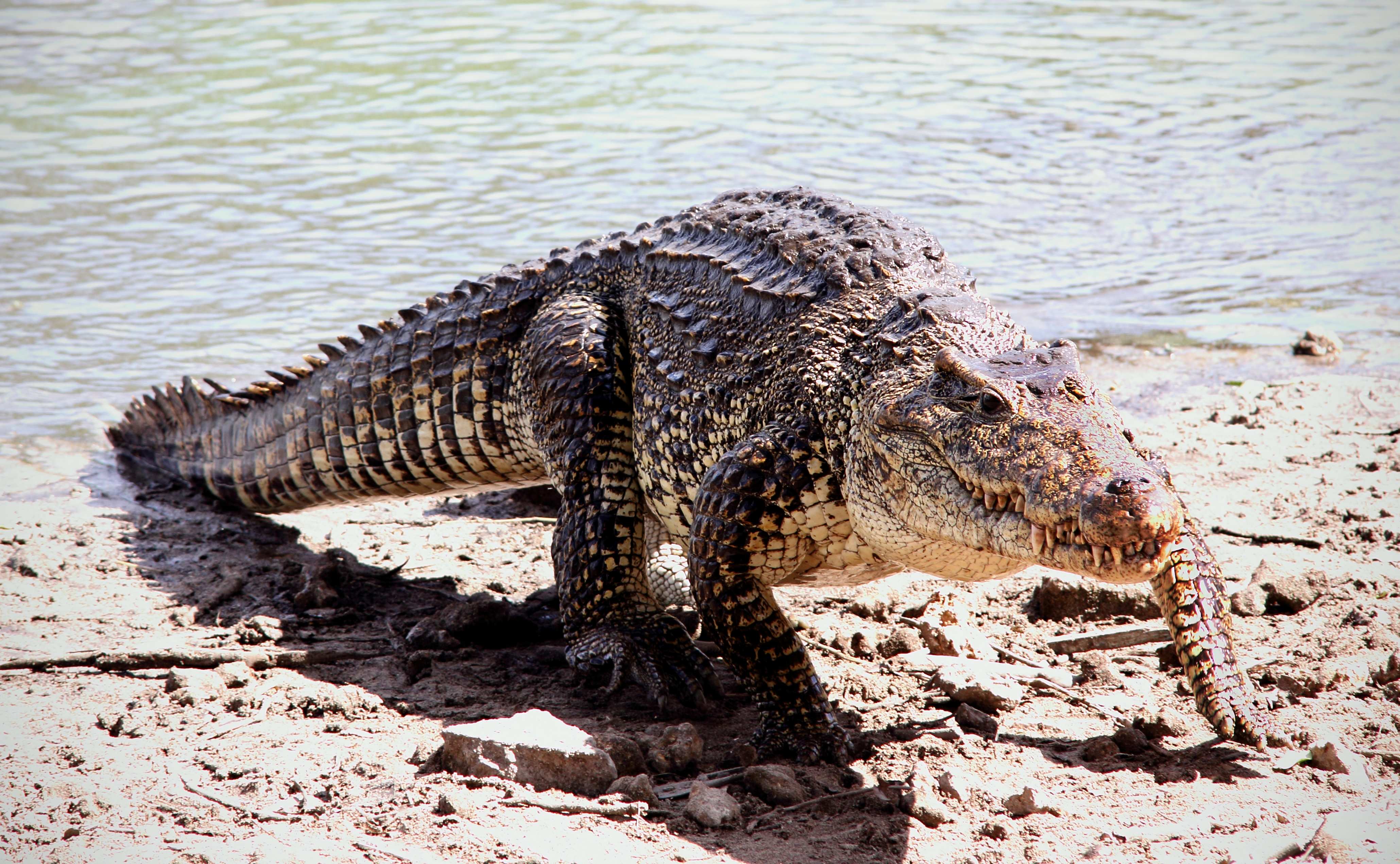 cuban crocodile walking